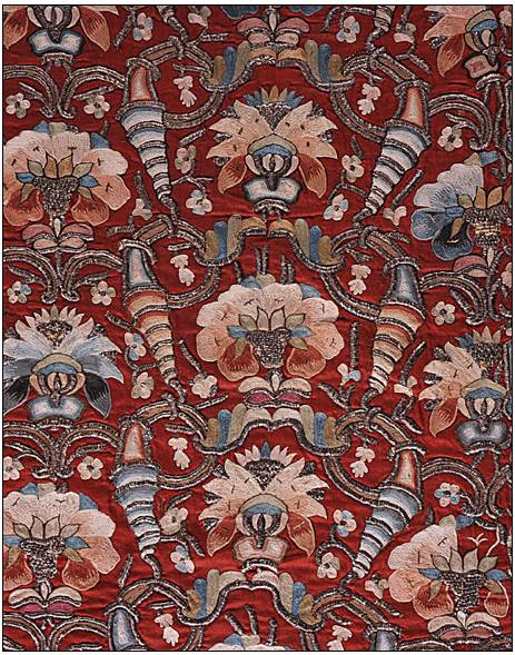 Ceremonial Barbering Cape, early 18th century, Turkey (detail) Textile; Ceremonial/Ritual Dress, Silk embroidery and couched metallic foil-wrapped thread on cashmere wool twill, 69 1/2 x 47 1/2 in. (176.53 x 120.65 cm) Eugene I. Holt Memorial Collection (M.69.1.3), Los Angeles County Museum of Art